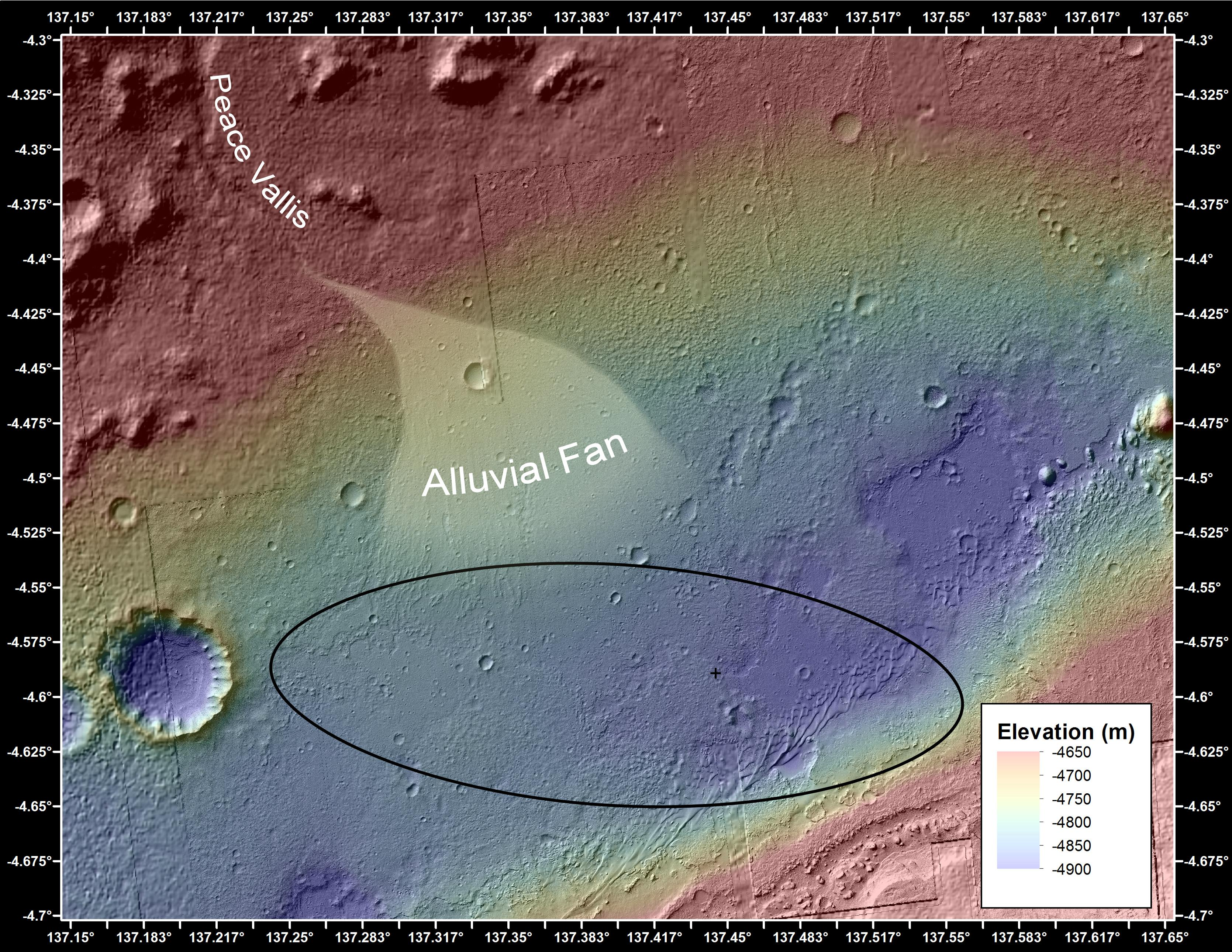 09.27.2012 Where Water Flowed Downslope This image shows the topography, with shading added, around the area where NASA's Curiosity rover landed on Aug. 5 PDT (Aug. 6 EDT). Higher elevations are colored in red, with cooler colors indicating transitions downslope to lower elevations. The black oval indicates the targeted landing area for the rover known as the "landing ellipse," and the cross shows where the rover actually landed. An alluvial fan, or fan-shaped deposit where debris spreads out downslope, has been highlighted in lighter colors for better viewing. On Earth, alluvial fans often are formed by water flowing downslope. New observations from Curiosity of rounded pebbles embedded with rocky outcrops provide concrete evidence that water did flow in this region on Mars, creating the alluvial fan. Water carrying the pebbly material is thought to have streamed downslope extending the alluvial fan, at least occasionally, to where the rover now sits studying its ancient history. Elevation data were obtained from stereo processing of images from the High Resolution Imaging Science Experiment (HiRISE) camera on NASA's Mars Reconnaissance Orbiter. Image Credit: NASA/JPL-Caltech/UofA